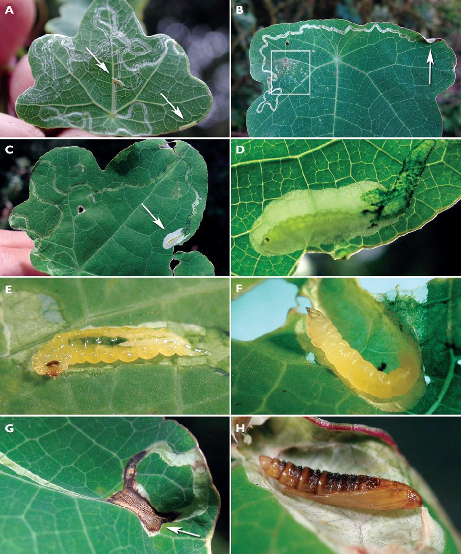 Life history of Phyllocnistis tropaeolicola.A Leaf mines on a young leaf, arrows pointing at young to middle instar larvae B mature leaf mine with pupal cocoon fold (arrow), white square enclosing early stage mine region C mature sap-feeding larva in pre-cocoon chamber D detailed view of figure C E opened mine showing nearly mature sap-feeding larva in situ F opened young pupal cocoon fold showing cocoon-spinning instar in situ G pupal cocoon fold, arrow pointing to the slender exit H opened pupal cocoon fold showing pupa in situ, dorsolateral view.